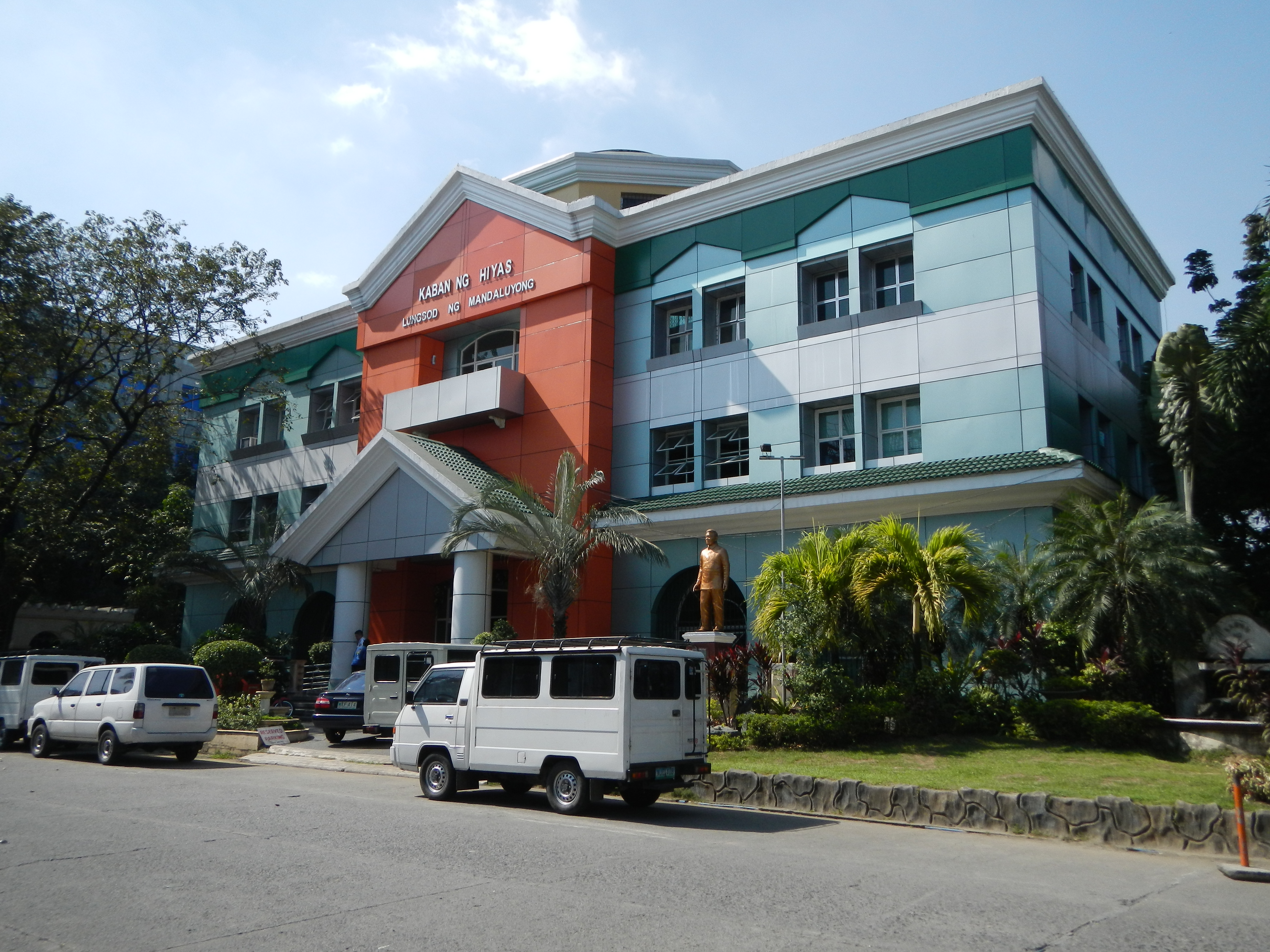 Upload Wizard photos of -- (general description of landmarks, town, church) - of Monument of Youth - "Bantayog Para Sa Kabataan" - beside the "Kaban ng Hiyas" the Convention Center - Neptali Gonzales [1] Monument Statue Marker, Mandaluyong [2] City Hall Complex, Brgy.Plainview, the Tiger City of Mayor Benjamin Abalos, Jr.[3] Plainview, Lungsod ng Mandaluyong [4] Website [5] Maysilo Circle - including the Old City Hall of July 7, 1962, the Hiyas ng Kaban or Convention Center Building housing the Office of Congressman Nephtali Gonzalez, Jr., the City Plaza, Garden, the Monument of the Youth, Halls of Justice housing the Courts of Law, Banco De Oro, Circle Garden Grill Coordinates: 14°34'41"N 121°2'3"E - and beside it is the - b) Archdiocesan Shrine of the Divine Mercy of Mandaluyong City, Metro Manila, of the Roman Catholic Archdiocese of Manila [6] [7] Maysilo Circle, Mandaluyong City.Website